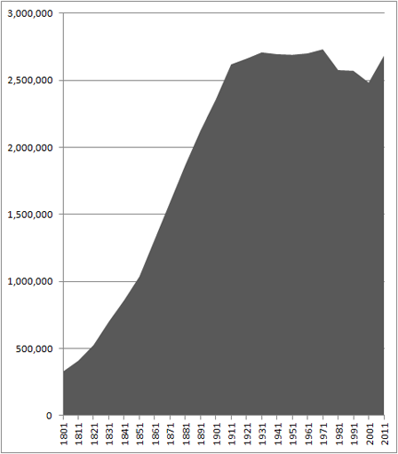 Population of the county of Greater Manchester. Data taken from A Vision of Britain Through Time.